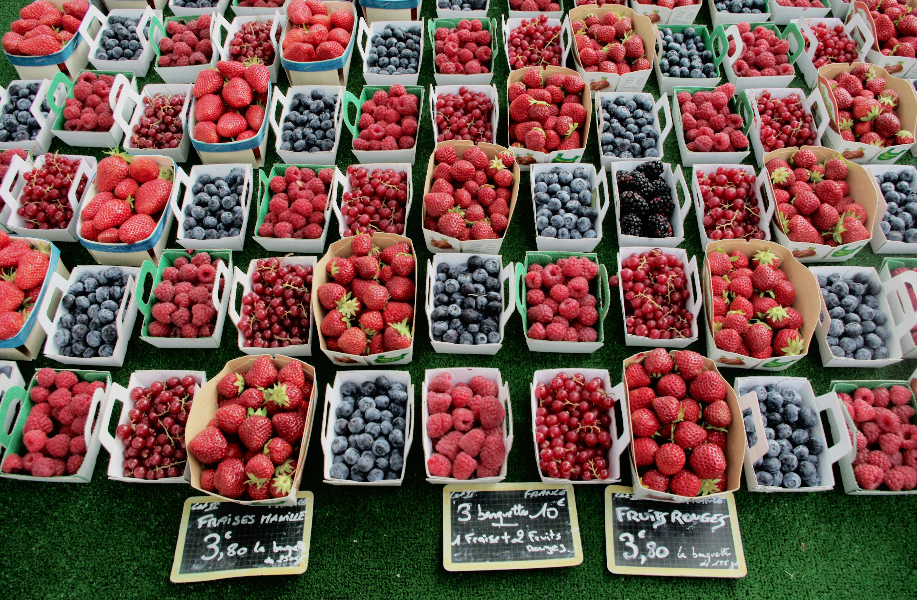 Rows of berries arranged on a market table in Arles, France.